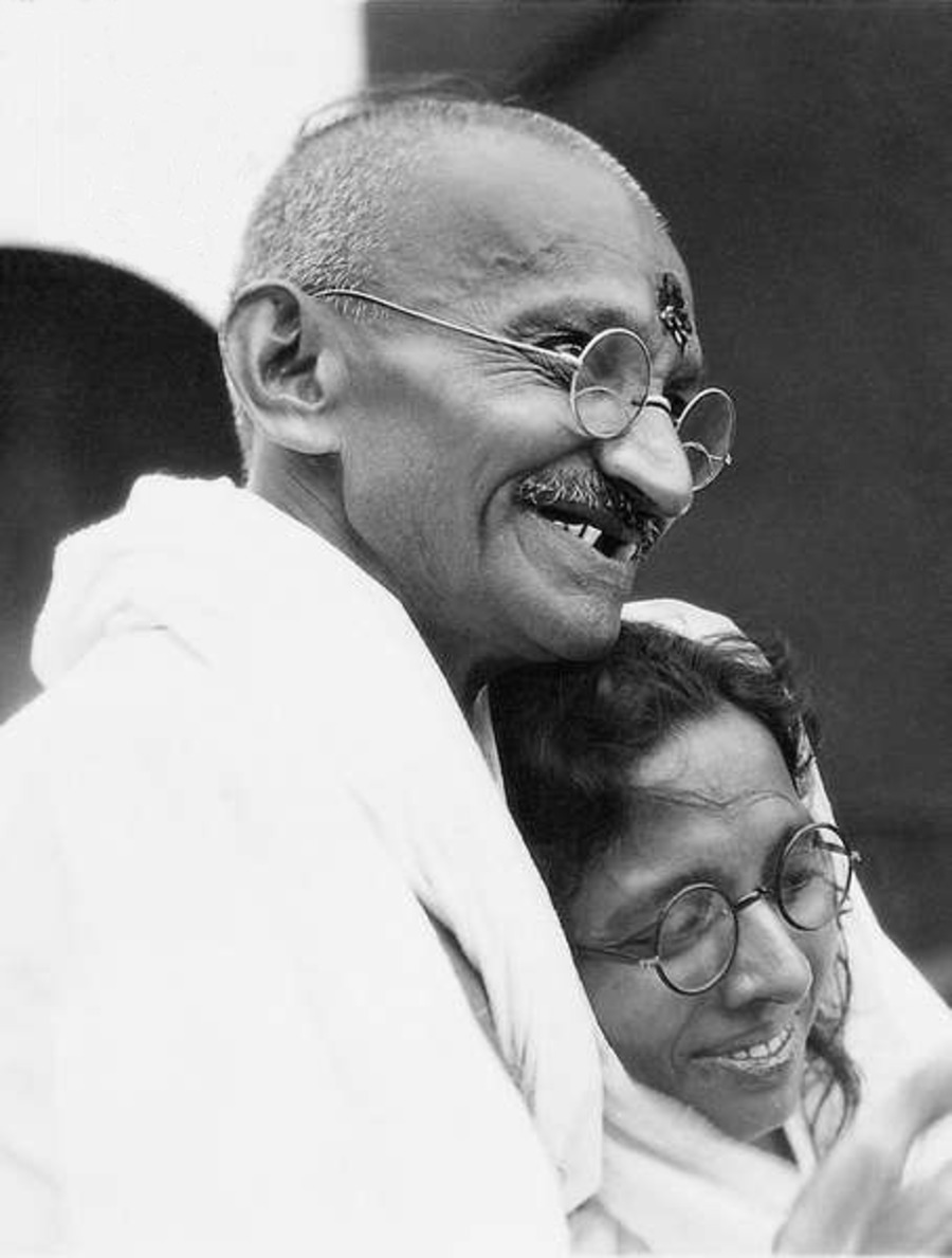 Mahatma Gandhi and Manibehn Patel before his departure to Europe.